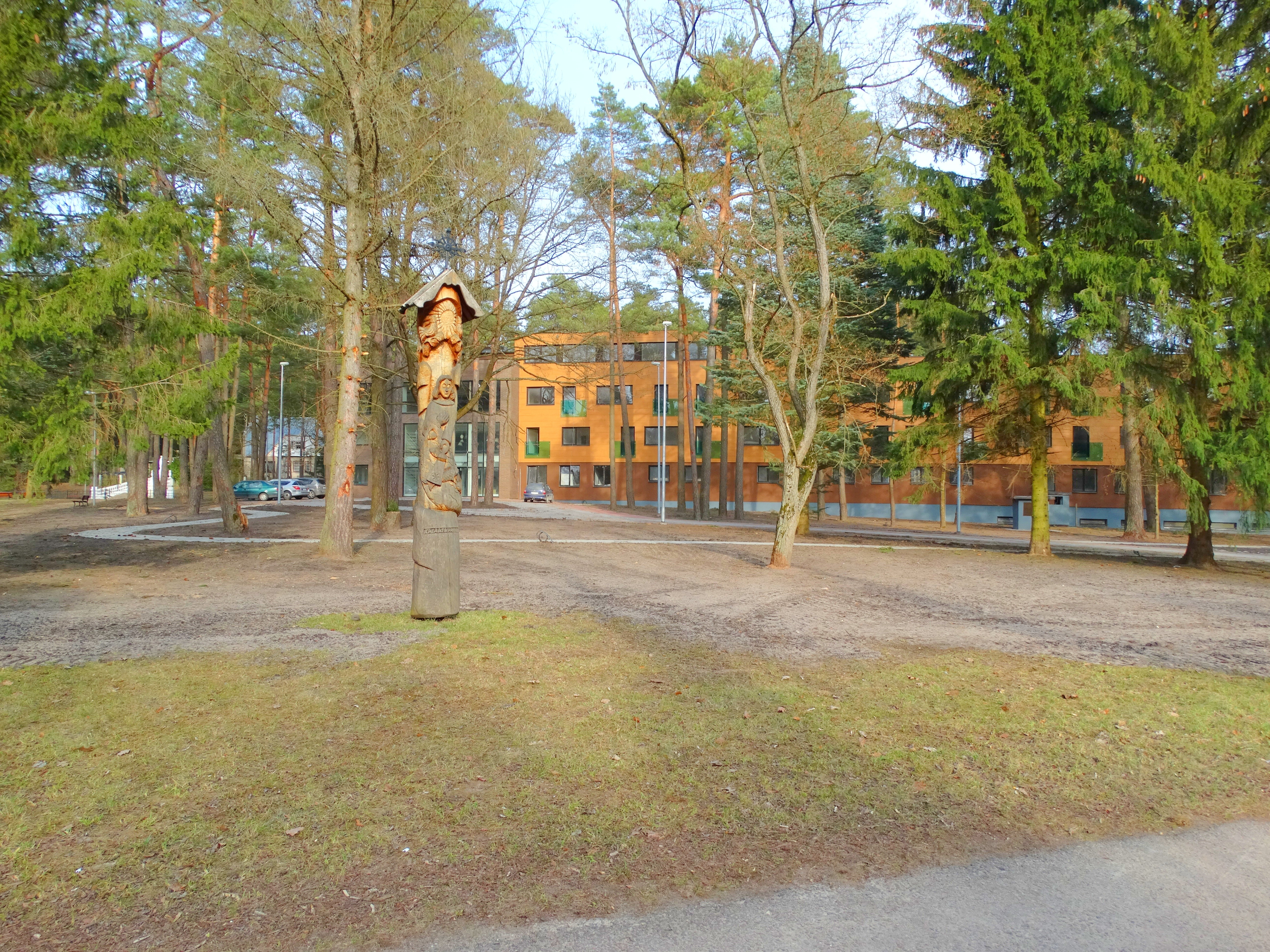 Rehabilitation hospital, Kulautuva, Kaunas district. Lithuania